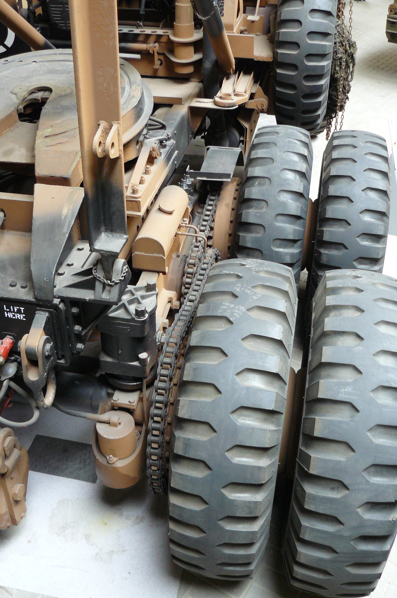 M26 Pacific Tank Transporter, view of chain-driven rear wheels. Seen at Liberty Park, Overloon, the Netherlands. Photo taken 21 May 2012